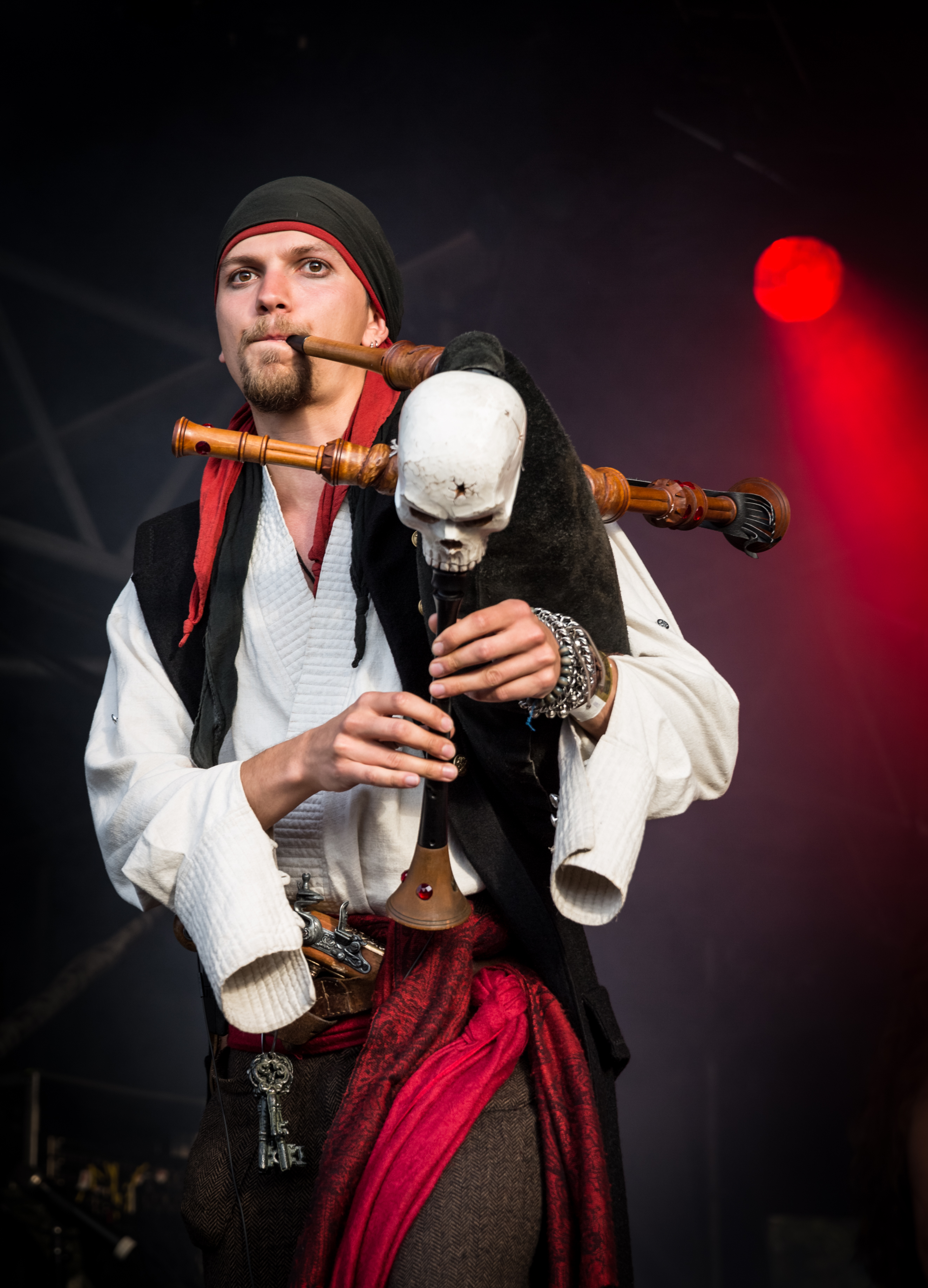 Vroudenspil - Wacken Open Air 2015